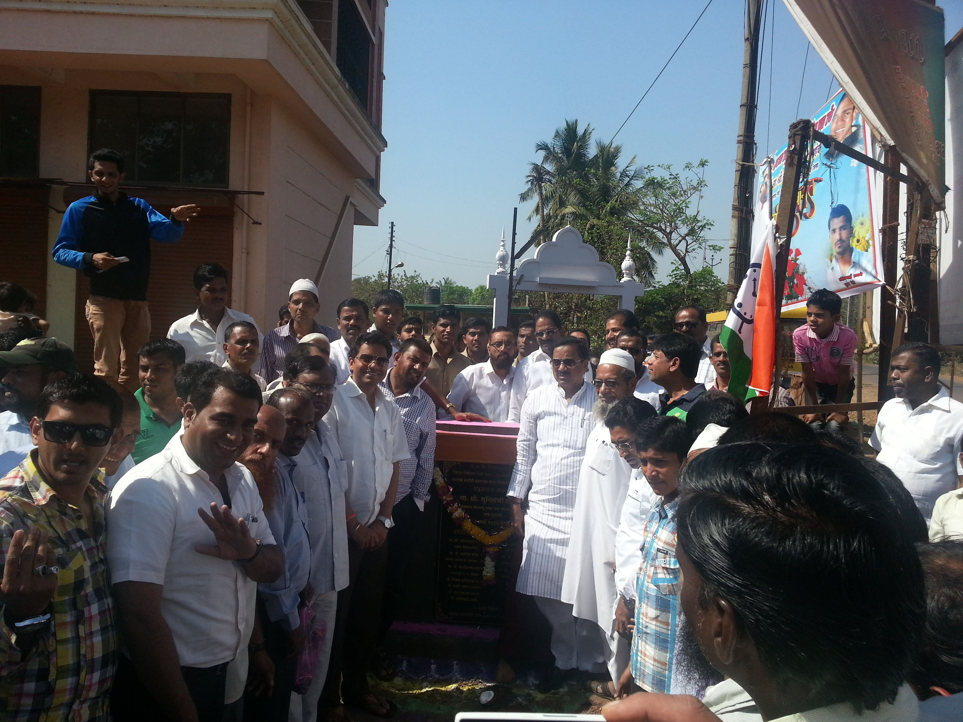 During a program in shrivardhan